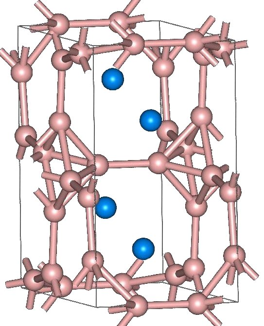 structure of chemical compound YB4 Journal = MATERIALS RESEARCH BULLETIN Year = 1976 Volume = 11 Page = 1519-1526 Title = SYNTHESE, CRISTALLOGENESE, PROPRIETES MAGNETIQUES ET EFFETS MAGNETOSTRICTIFS SPONTANES DE QUELQUES TETRABORURES DE TERRES RARES Authors = Berrada A. et al.